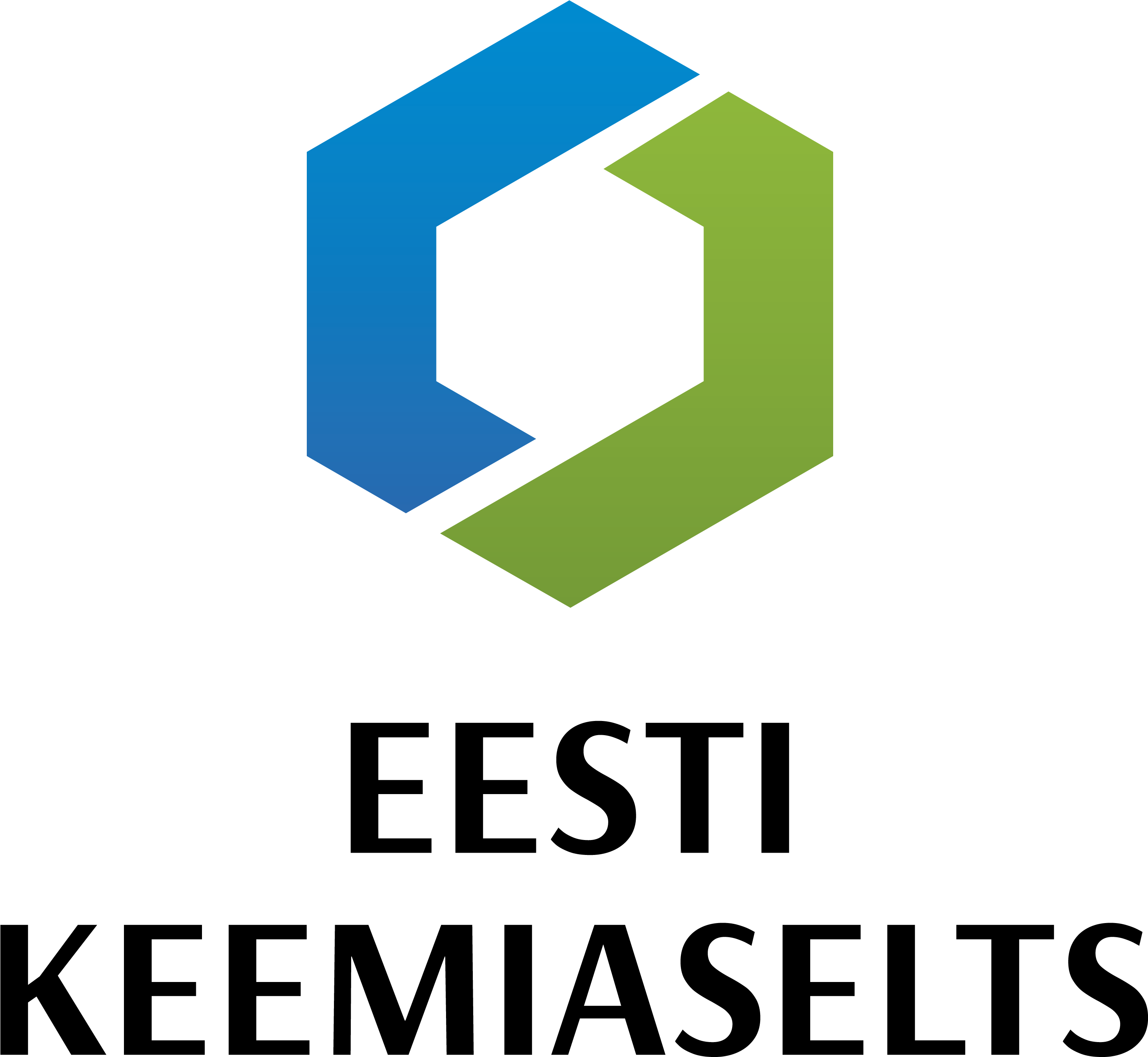 Estonian Chemical Society logo